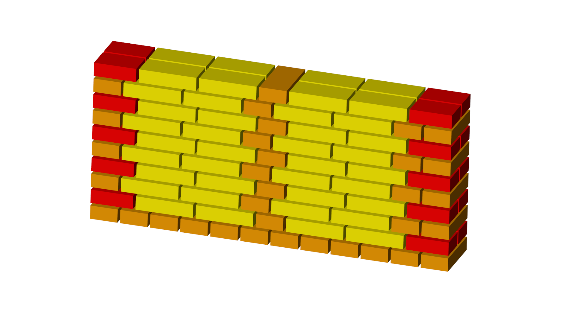 A kind of Garden wall bond